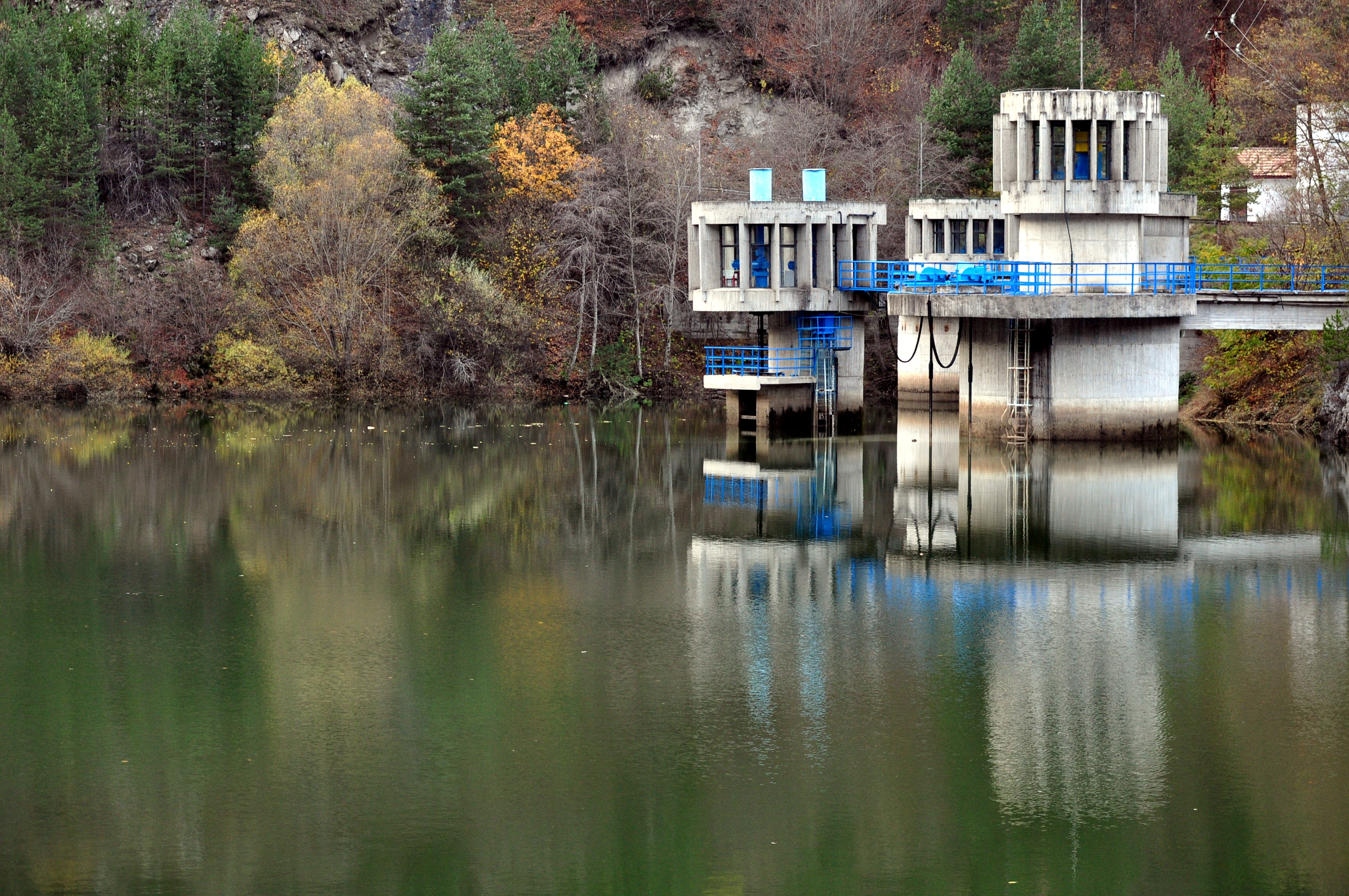 The control tower of the Teshel Dam.